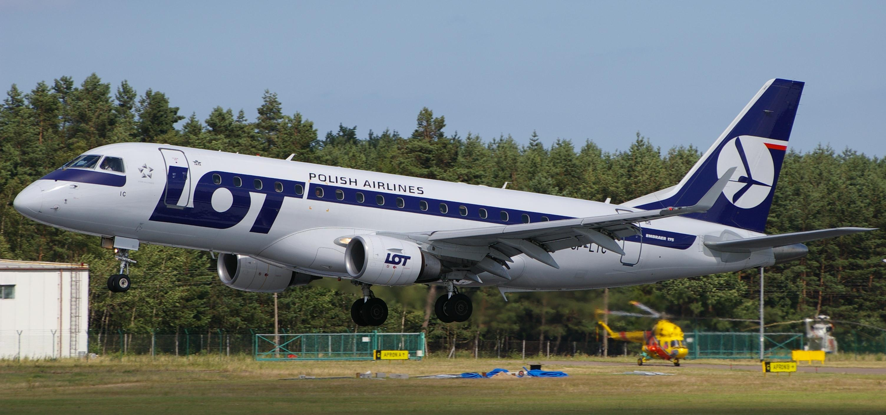 Embraer ERJ-175 (SP-LIC) of the Polish LOT airlines landing in Gdańsk